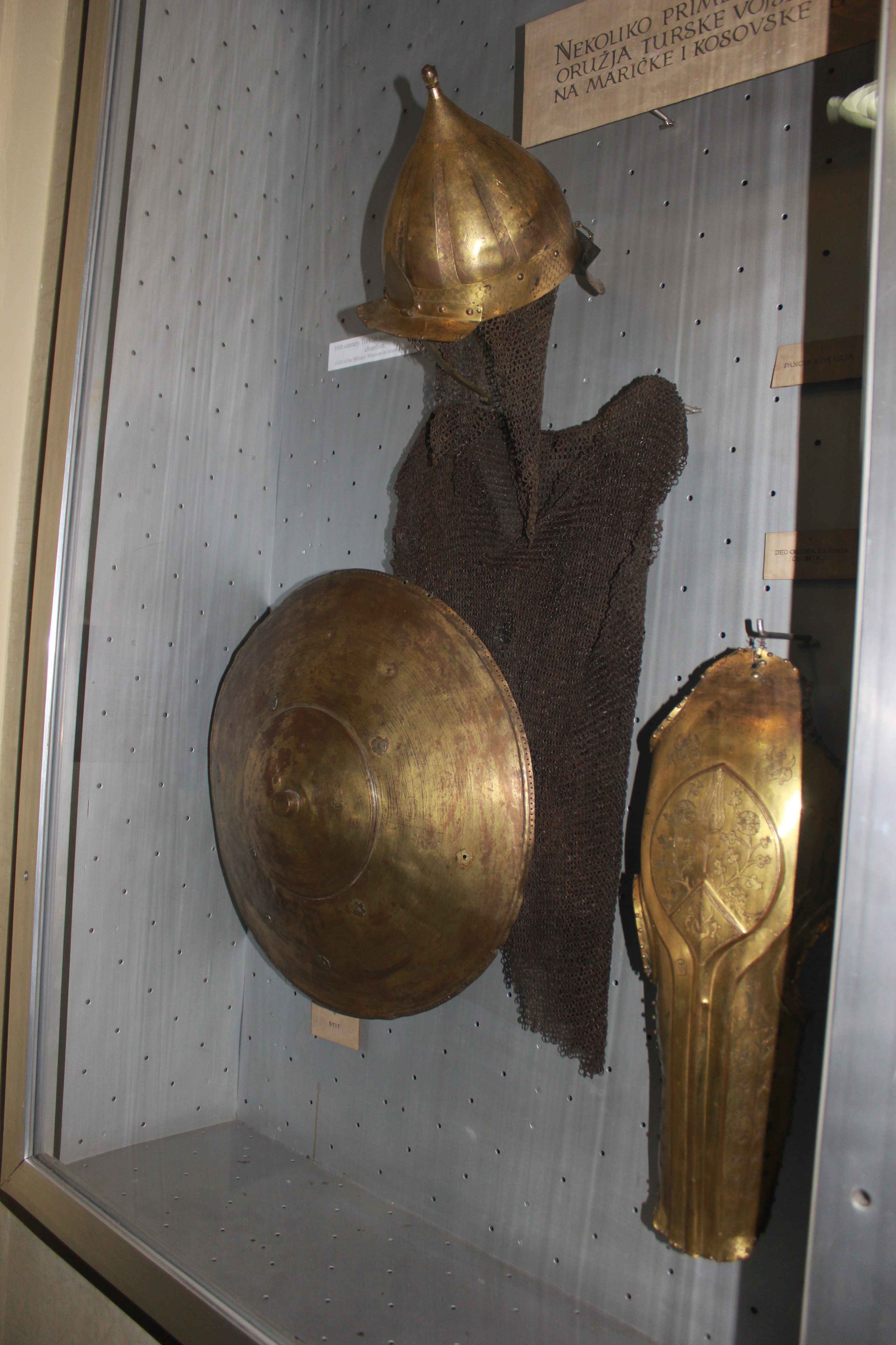 The armor and helmet of Turkish army during battles of Marica and Kosovo